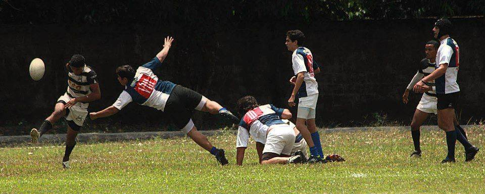 T2012